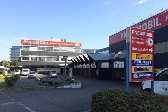 branch of Pneumobil Reifen und KFZ-Technik GmbH in Stuttgart / Germany